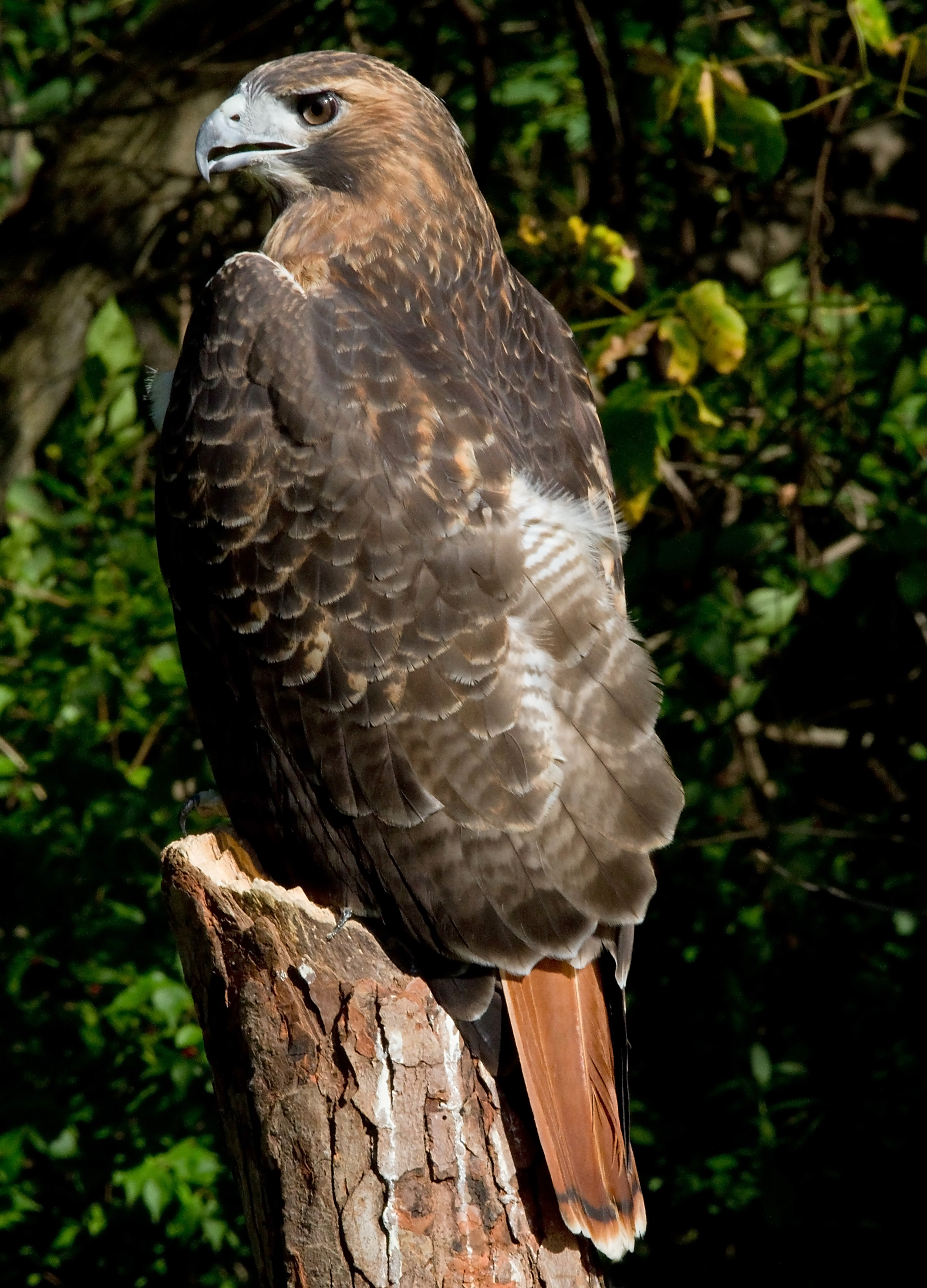 Red tailed hawk showing characteristic tail feathers. Photo by Greg Hume, taken at Raptor Inc. in Cincinnati, OH.